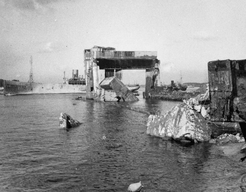 Germany Under Allied Occupation Remains of the U-Boat pens at Kiel after the explosion of the demolition charges. The cargo-ship moored just in front of the entrance to the pens was to guard against blast from the explosion crossing the river and damaging private property.